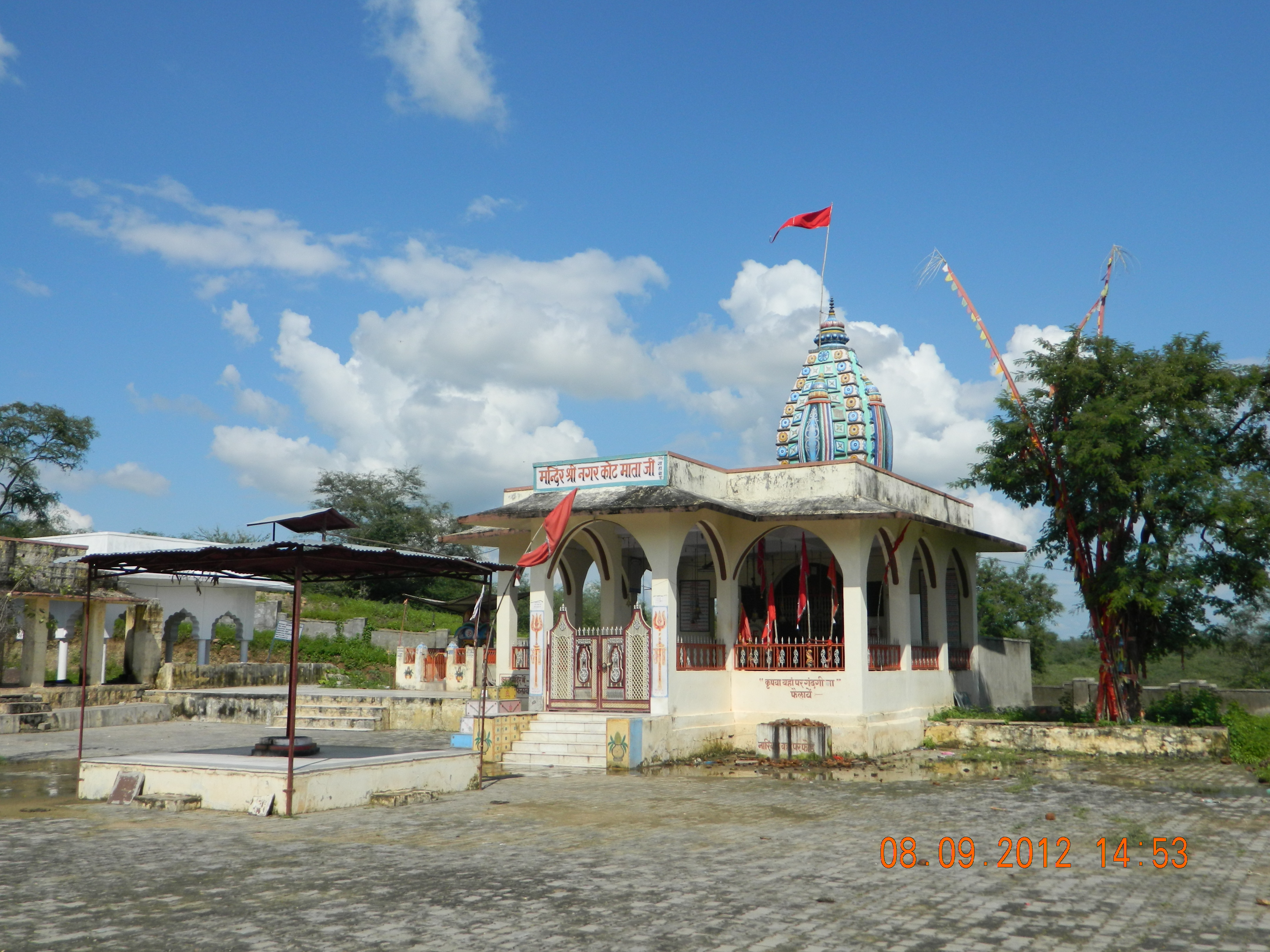 Nagarkot mataji temple shahbad baran